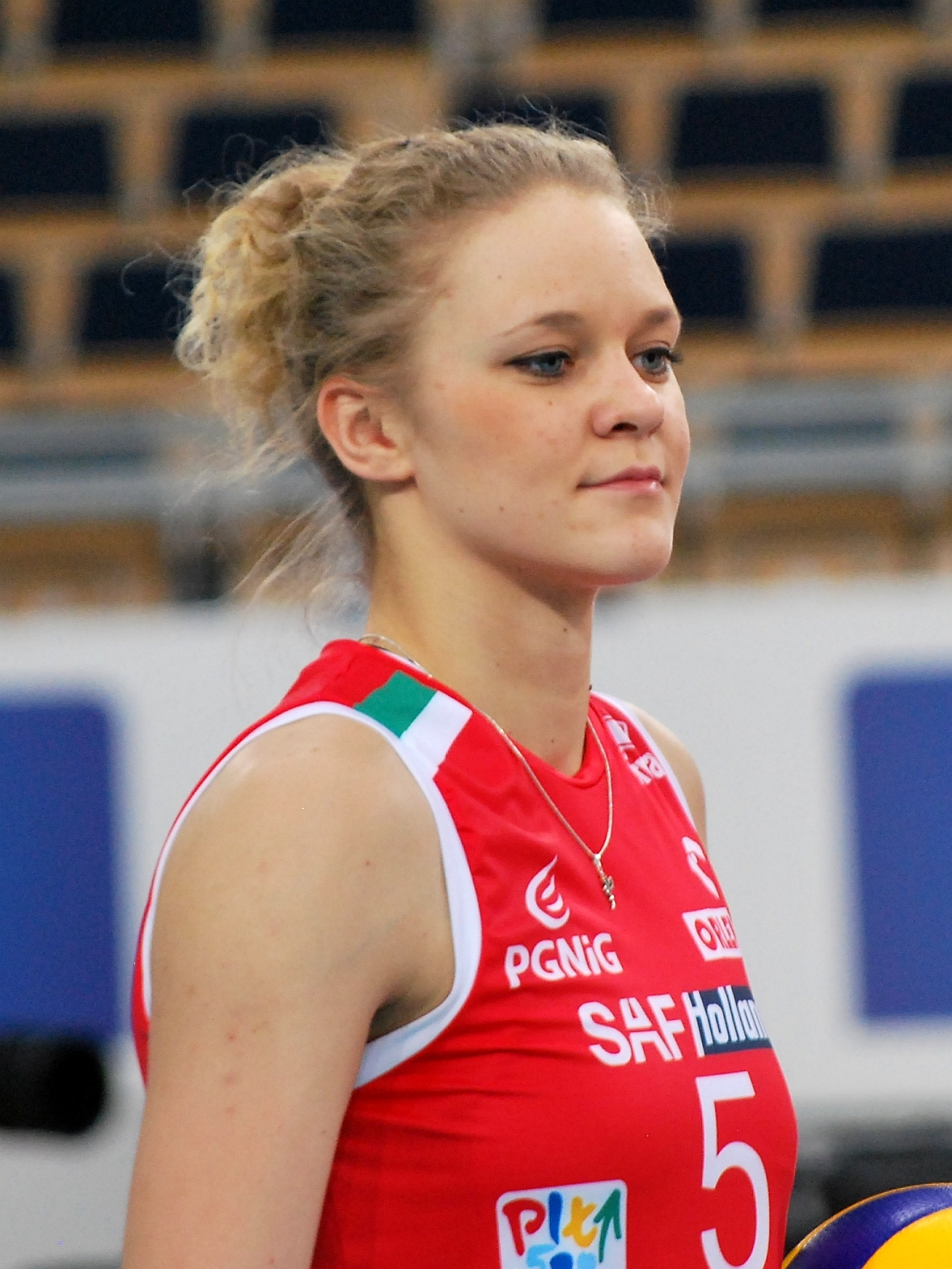 Klaudia Konieczna, volleyball player from Poland